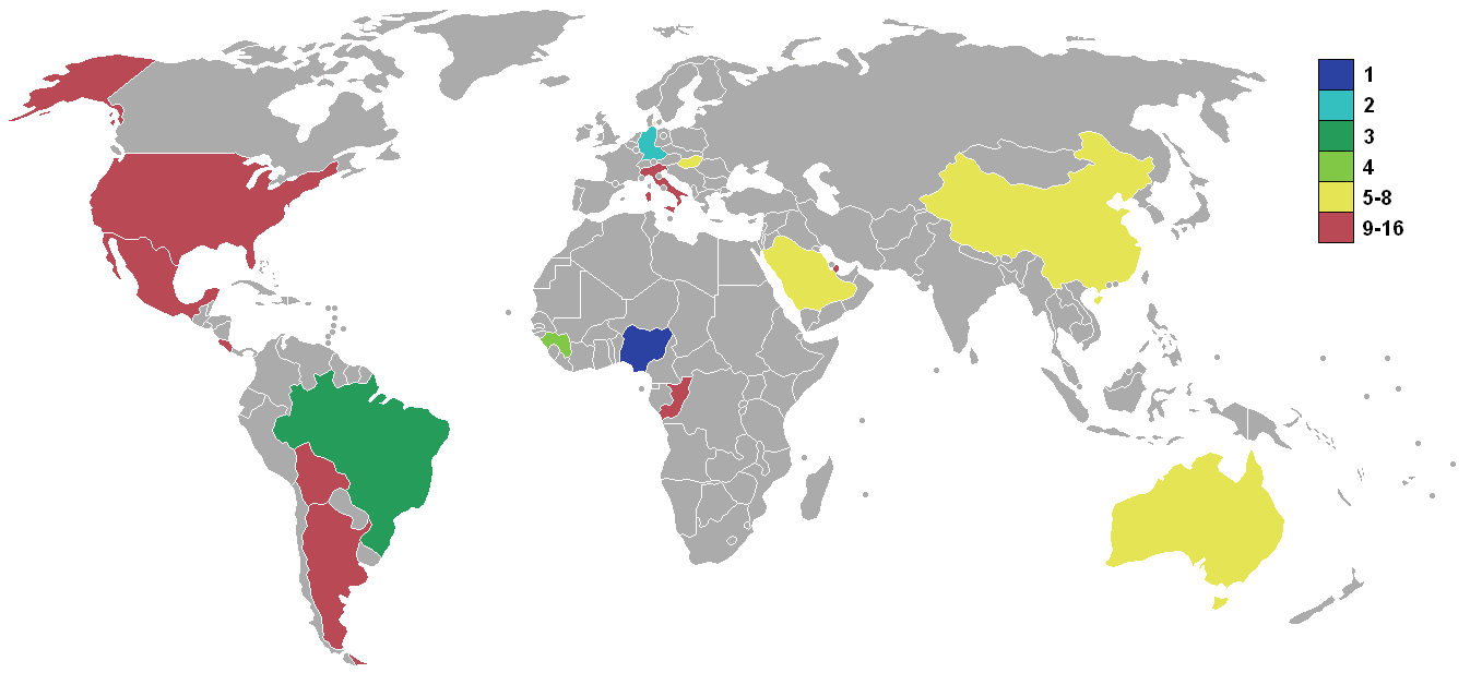 1985 FIFA U-16 World Championship